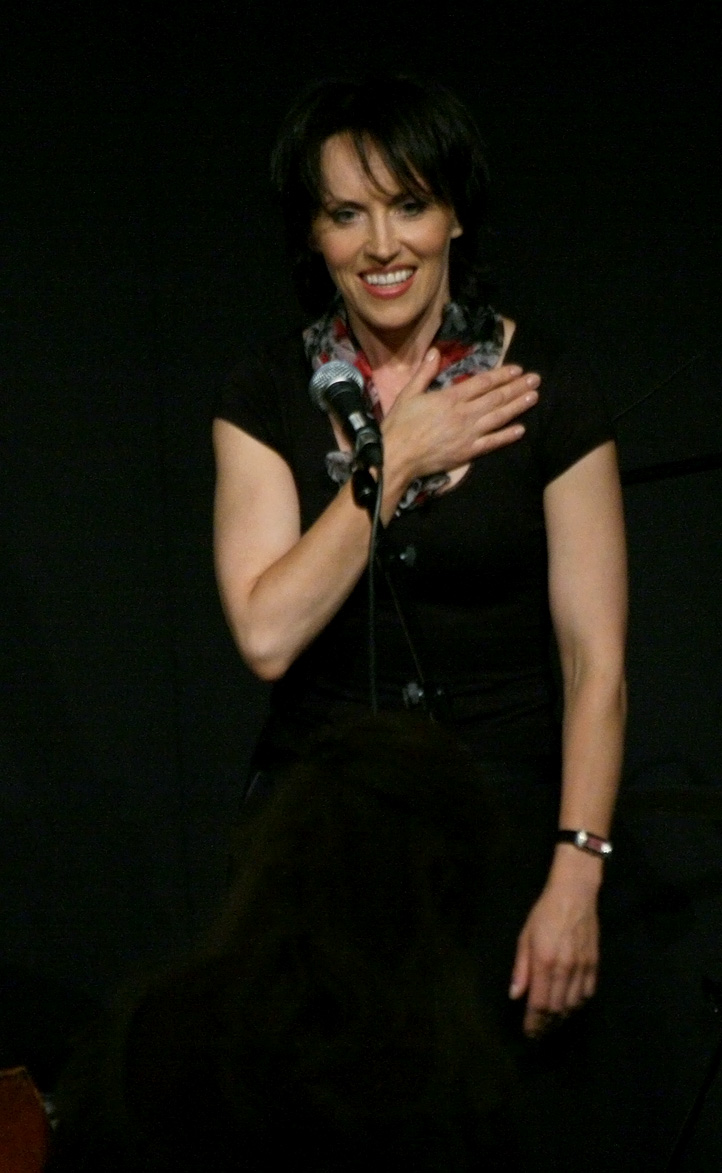 Estonian singer Siiri Sisask at the pre-opening of the literary festival O-Töne 2011 at the Museumsquartier in Vienna